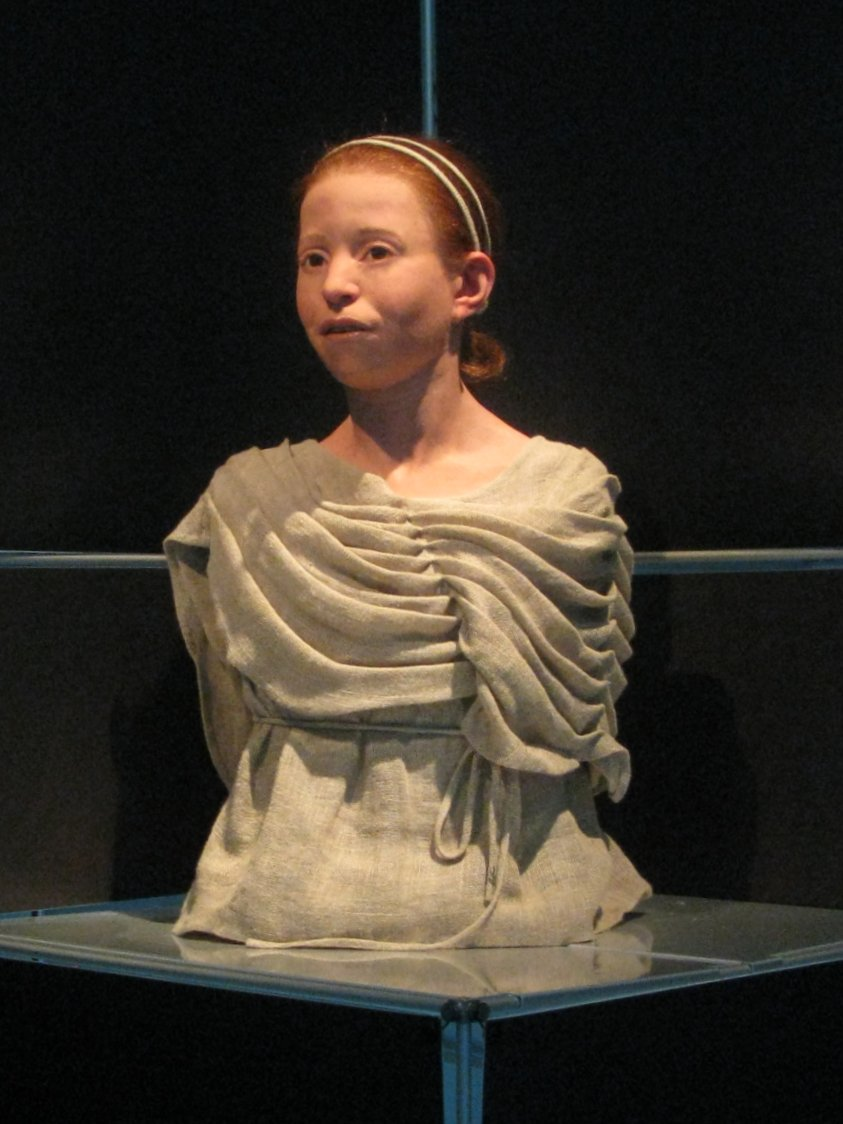 Myrtis, Acropolis Museum